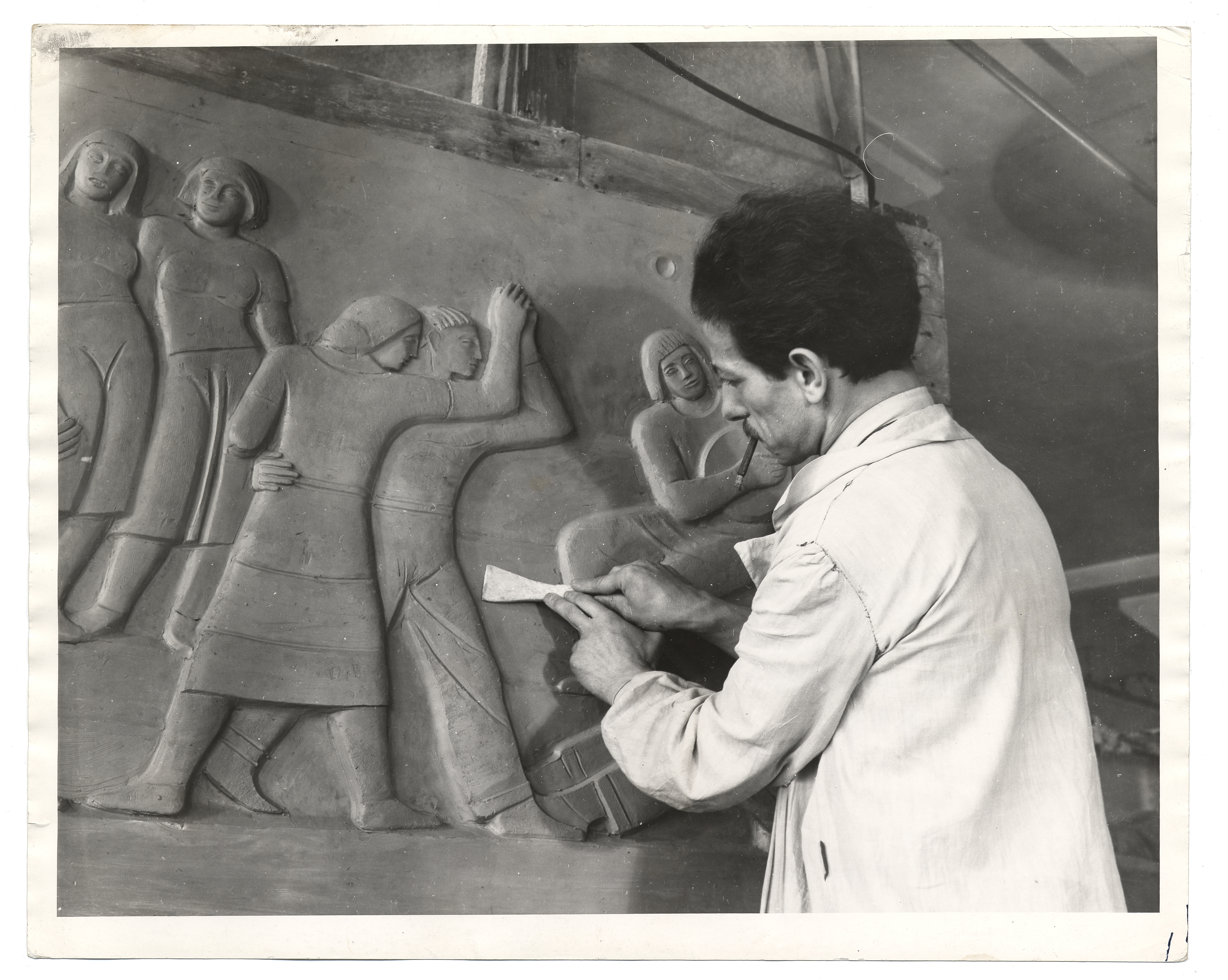 Stea working on a plaster mural. Photographed for the Works Projects Administration.Identification on verso (handwritten and stamped): Federal Art Project W.P.A.; Photographic Division; 110 King Street; New York City Negative No: P3441-1; Date: 3/2/39; Photographer: Herman; Artist: Cesare Stea; Medium: plaster; Location: Queens Bridge Community Center Panel.